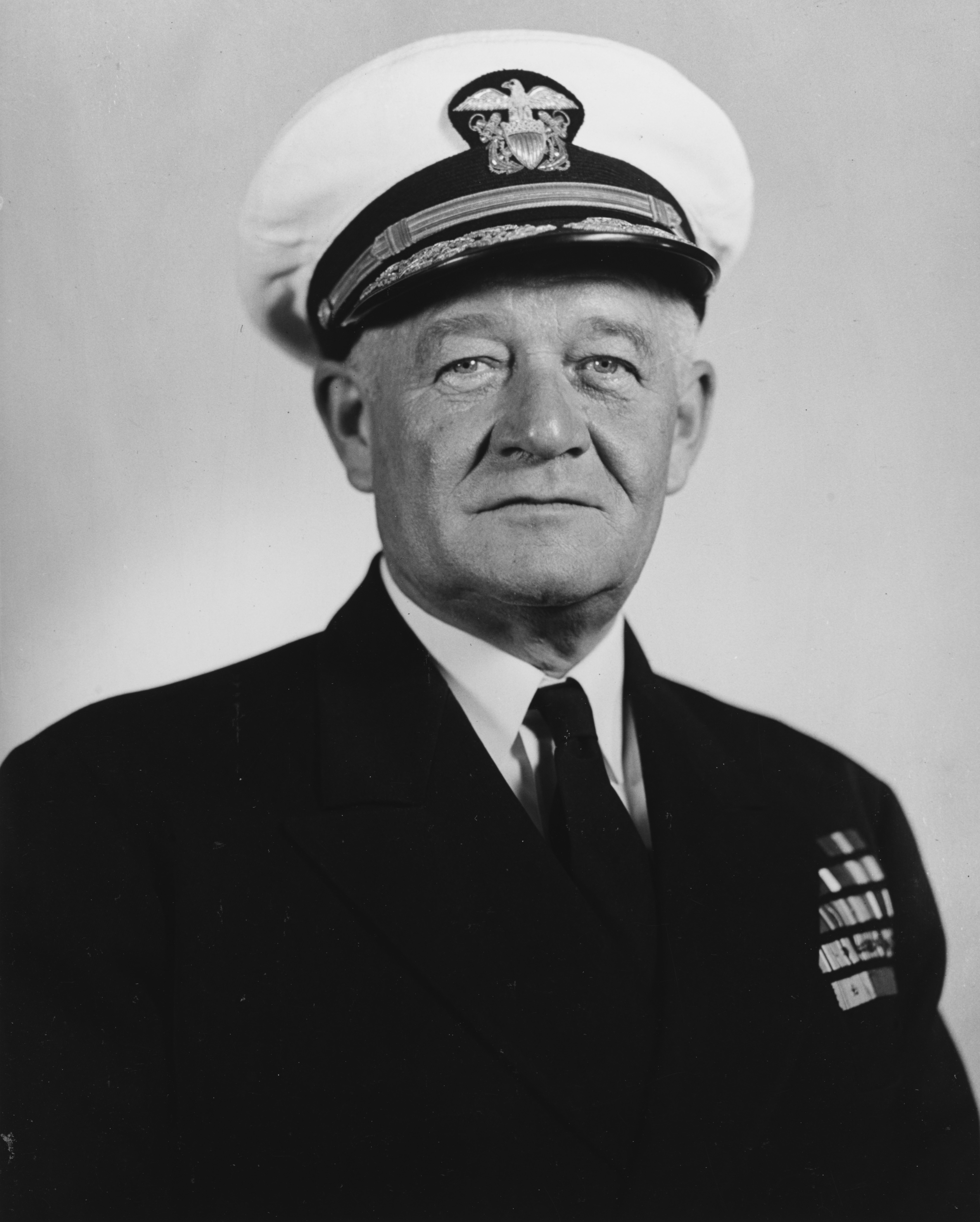 Vice Admiral Robert C. Giffen, USN Photographed during World War II. The original print bears a date of 27 December 1950, which is probably when it was received by the Naval Photographic Center.